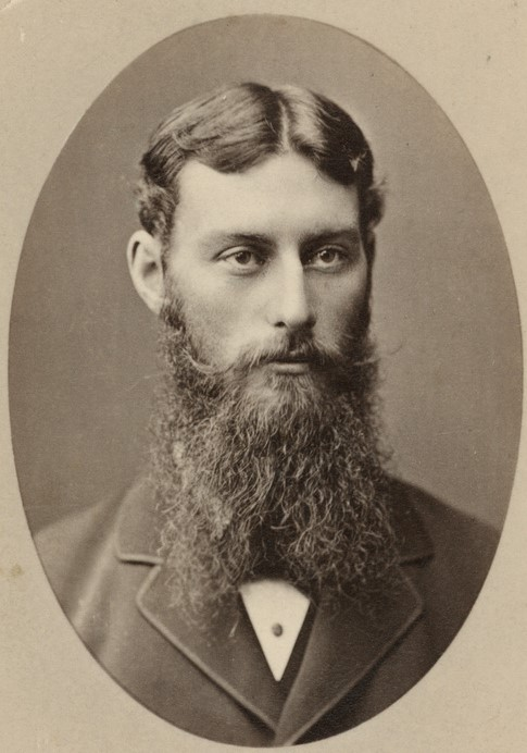 Portrait of David Lindsay (explorer).